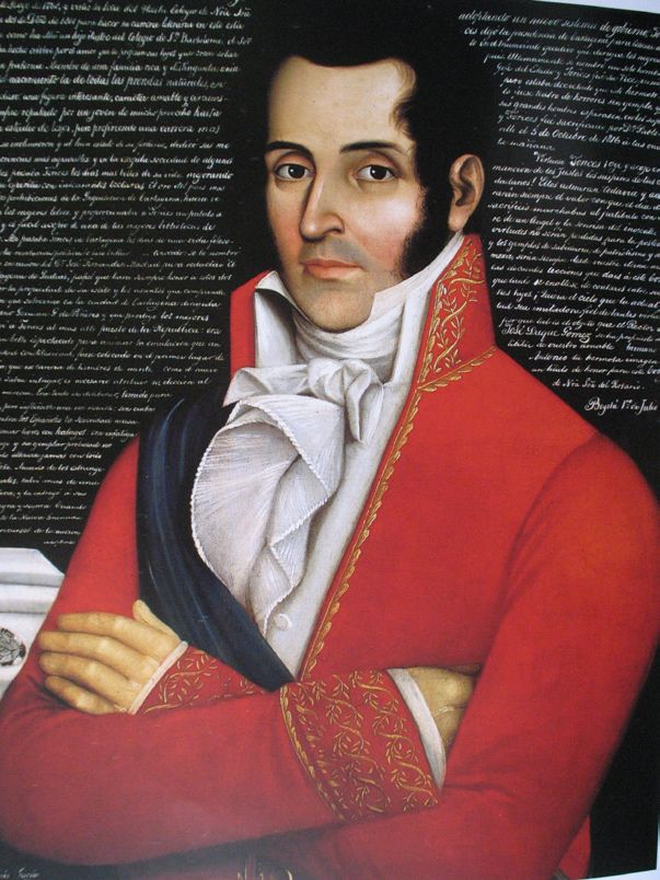 Manuel Rodríguez Torices by Luis García Hevía, 1837